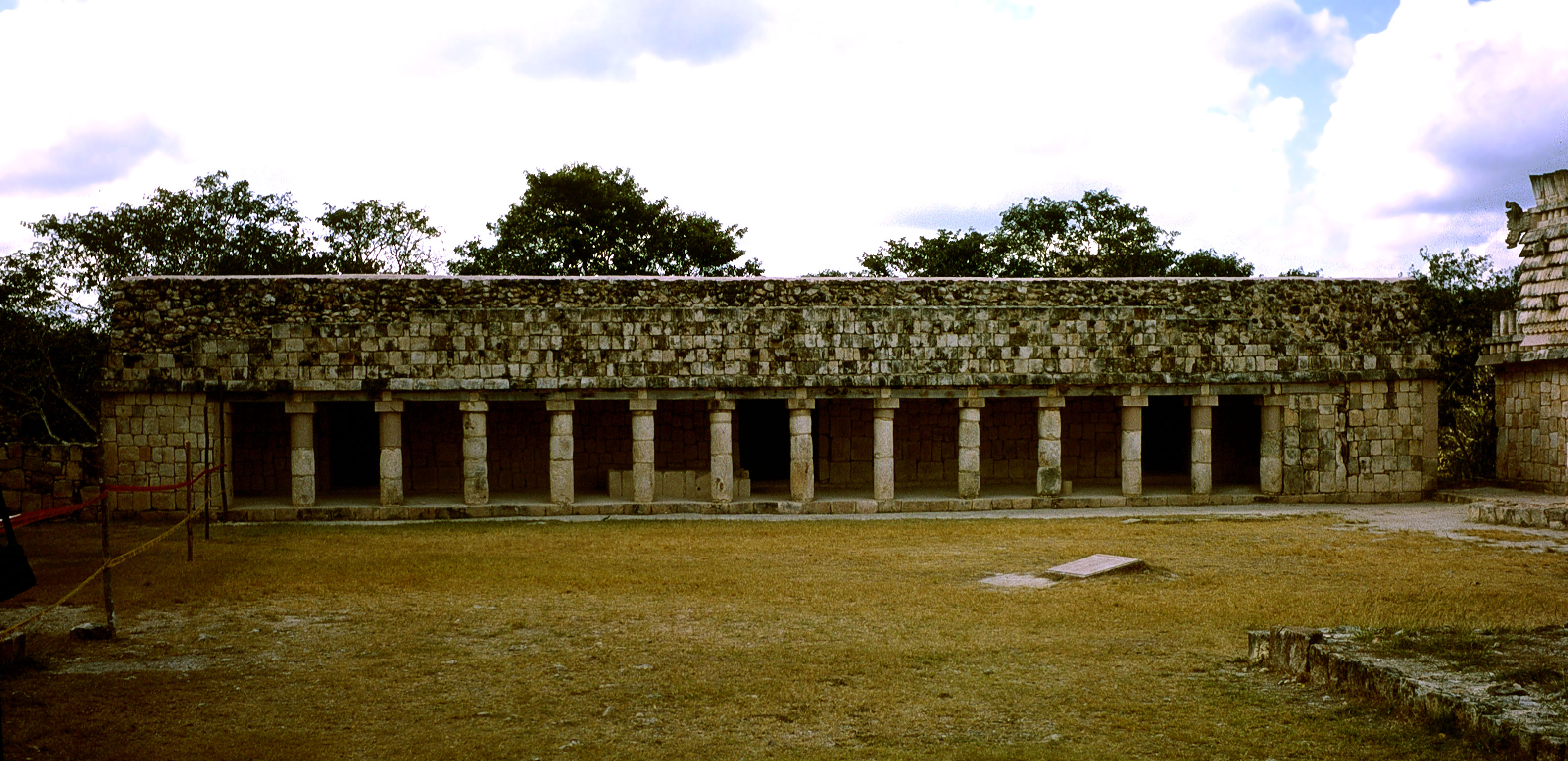 Uxmal,Yucatan, Mexico: Birds plaza, south building